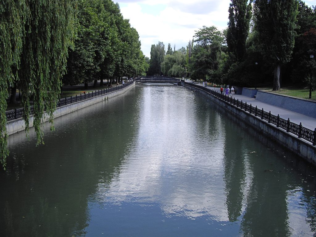 river Salgir in Simferopol Набережная имени 60-летия СССР